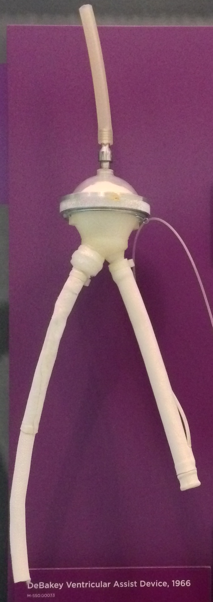 1966 DeBakey ventricular assist device. This is part of the collections of the National Museum of Health and Medicine.